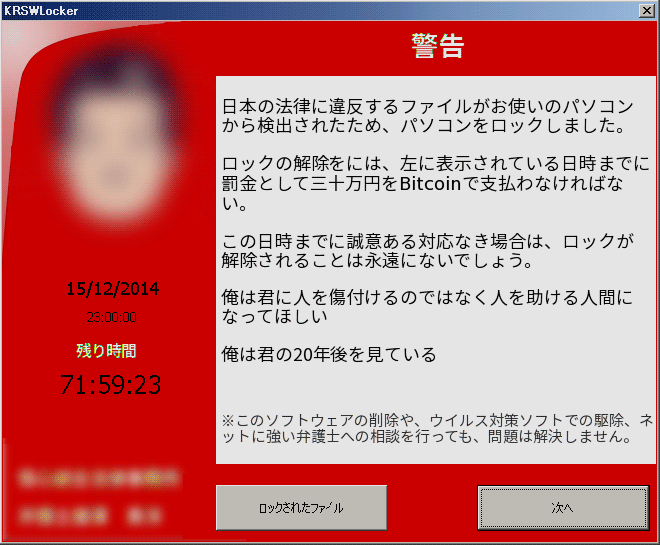 krswlocer screenshot gif